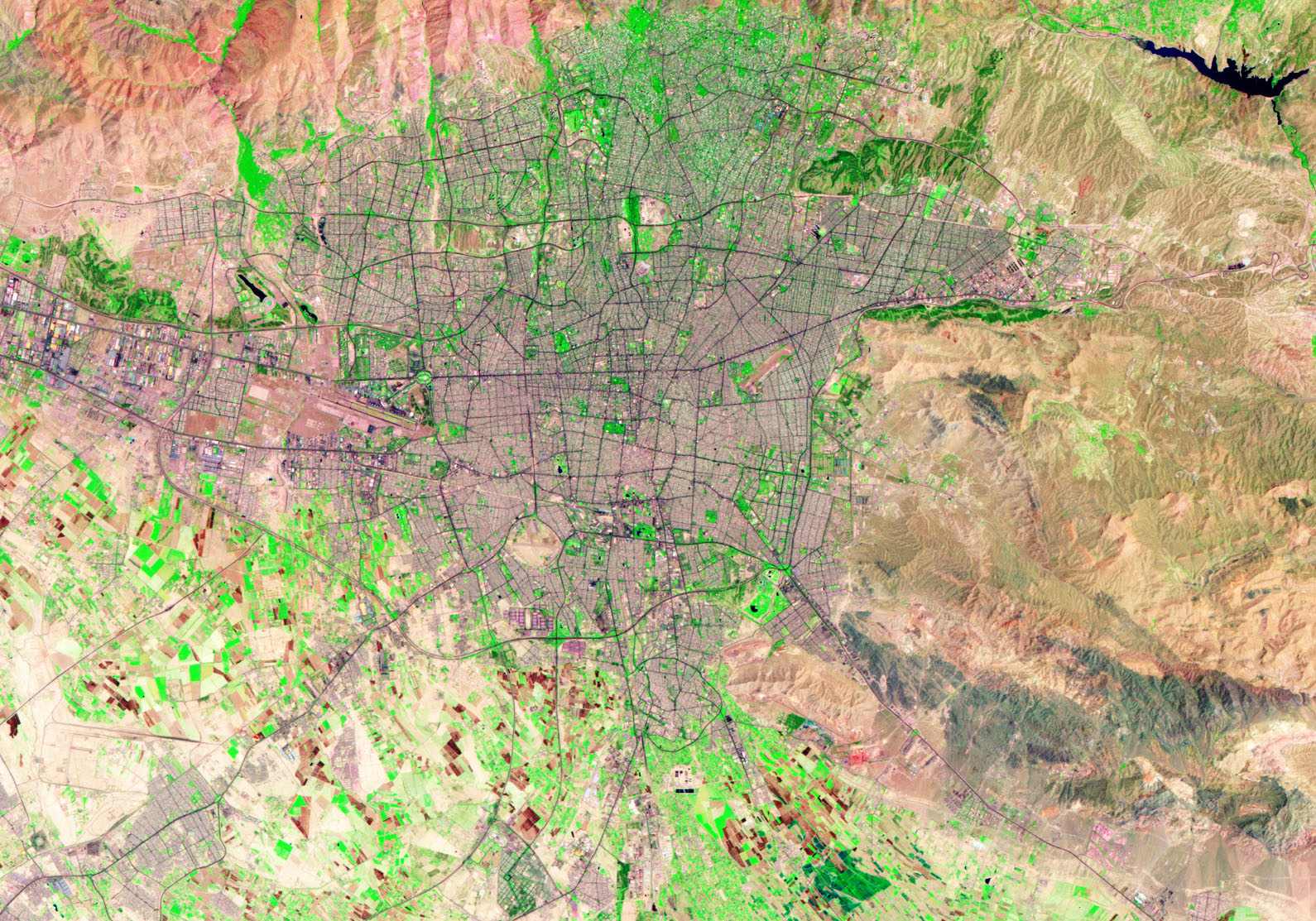 Tehran from space